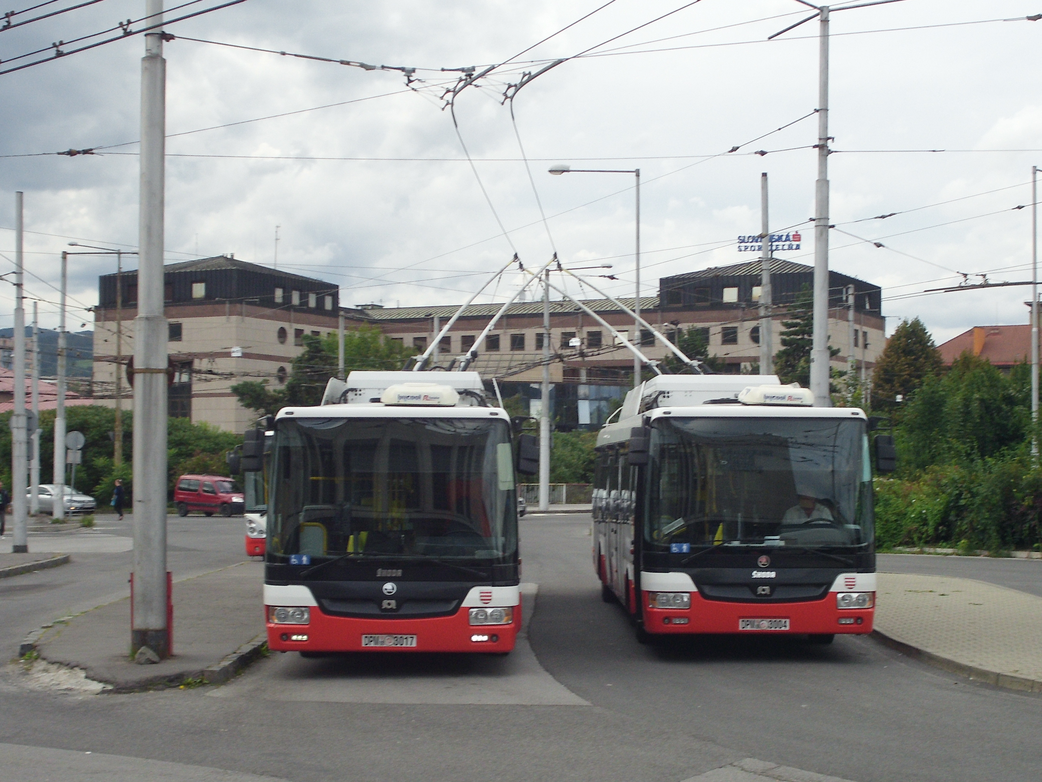 Trolleybuses in front of a train station in Banská Bystrica, Slovakia.